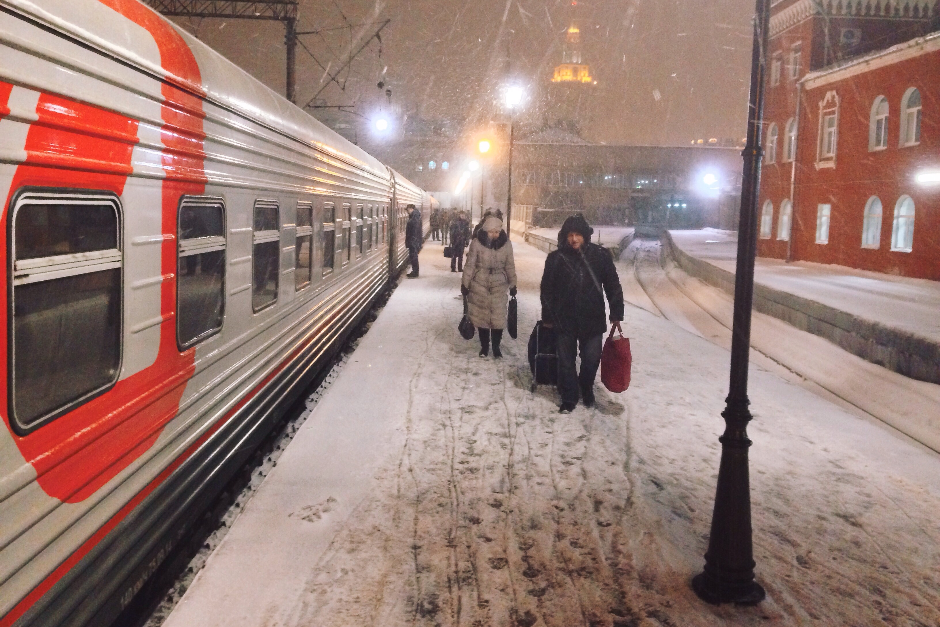 Processed with VSCOcam with k2 preset